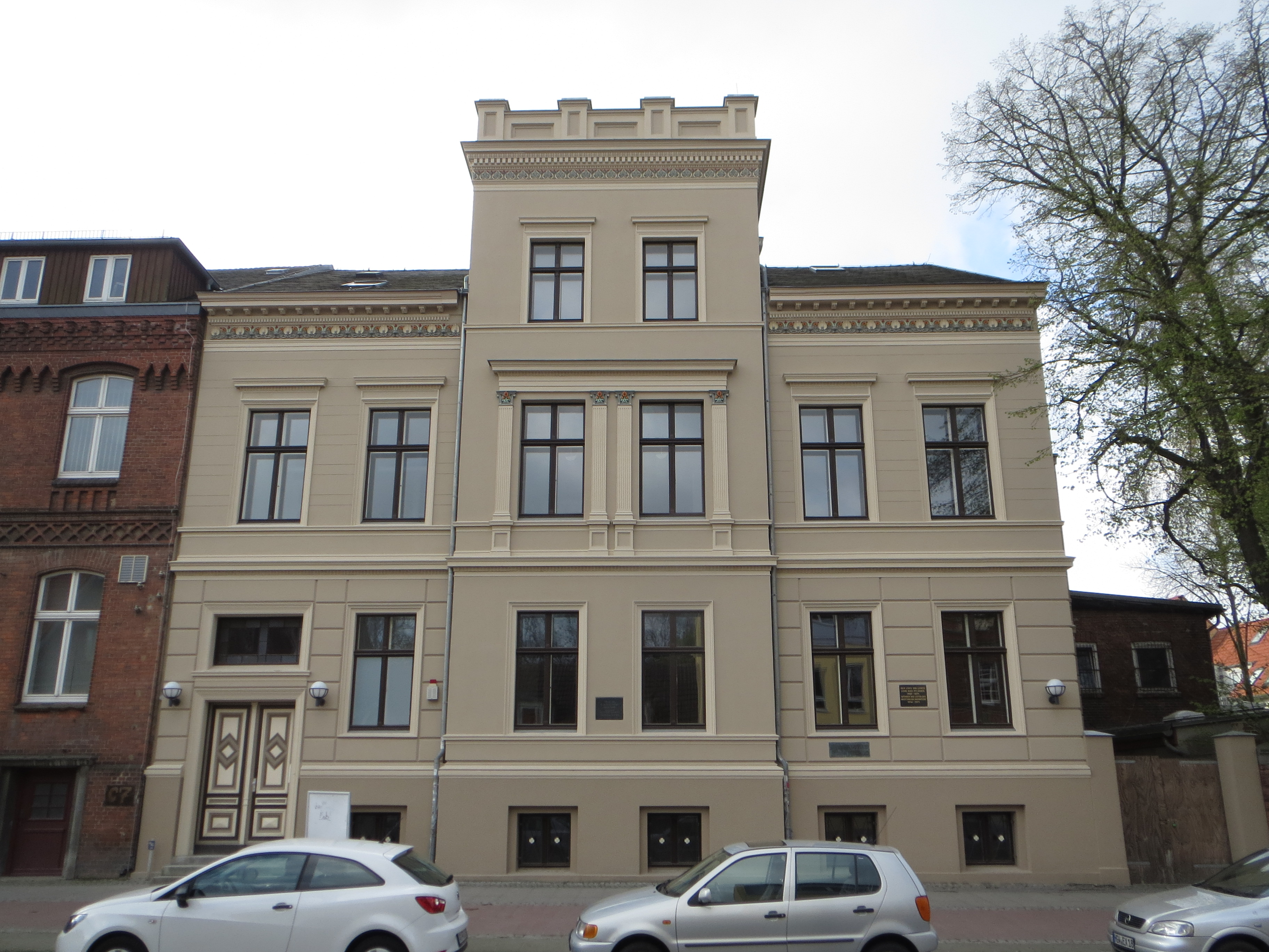 Bahnhofstrasse 48/49 in Greifswald, Institut fuer Kirchenmusik